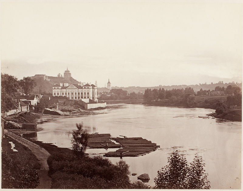 Timber floating in Vilnius (1870-1880)